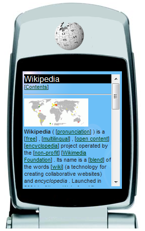 screenshot of